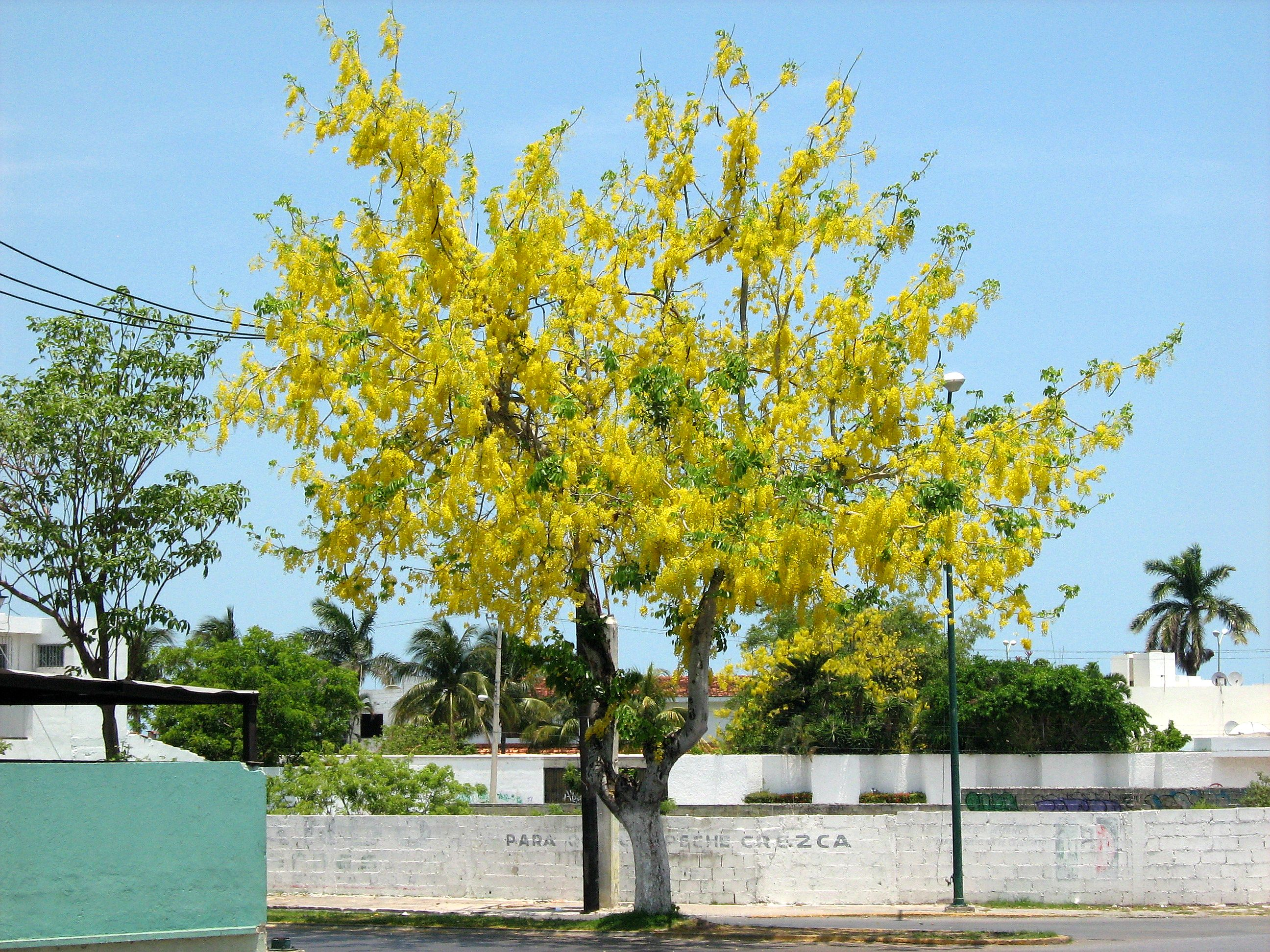 Yellow tree, in Campeche, Mexico, 2010.